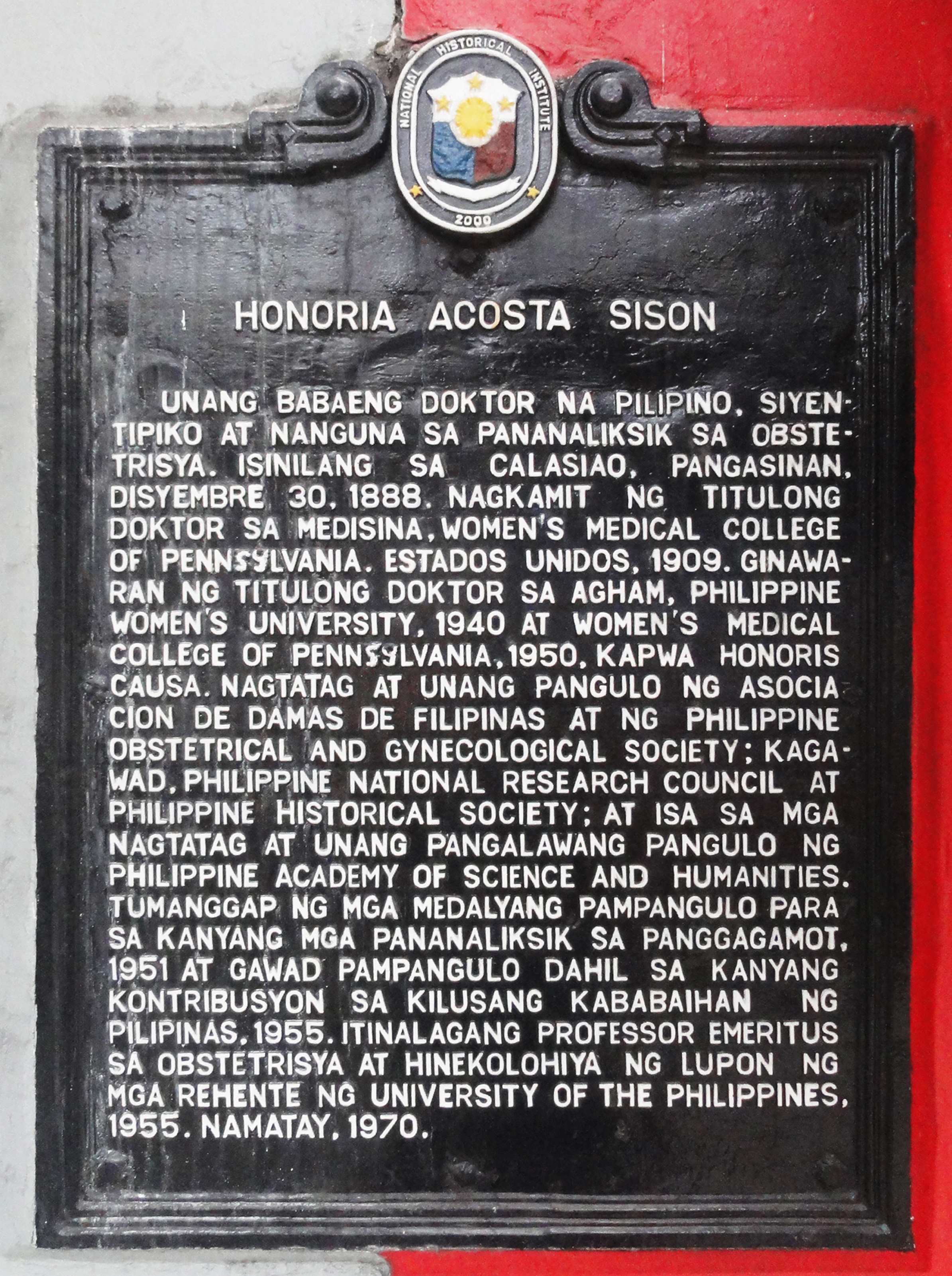 HonoriaAcostaSison HistoricalMarker Manila